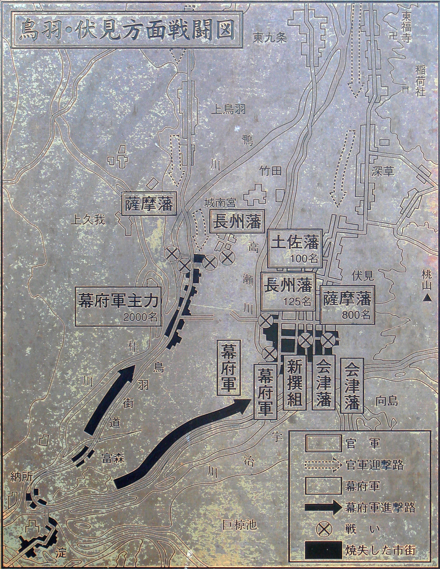 Toba_Fushimi_battle_monument_in_Tobarikyusekikooen_detail